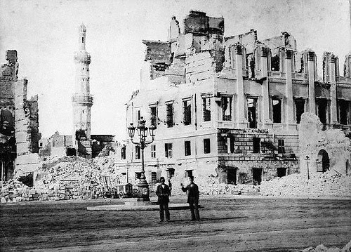 British Bombardment of Alexandria 1882